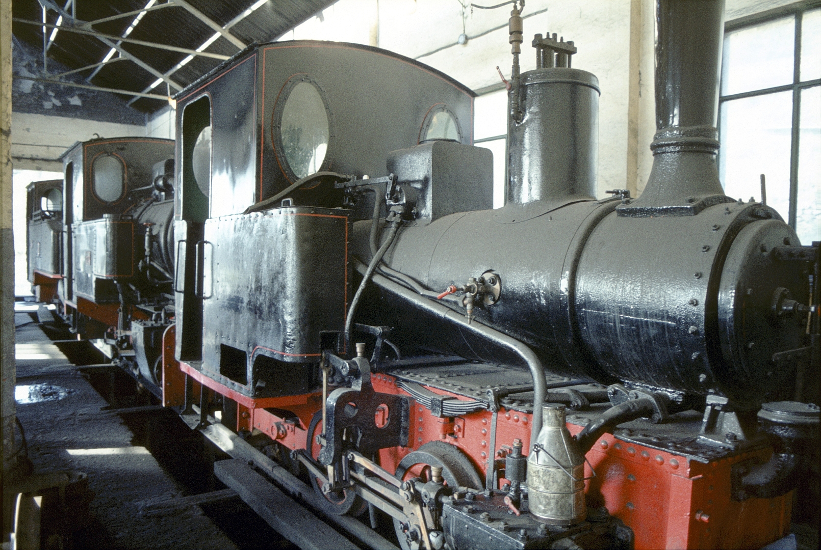 Locomotives stored in engine shed of « Antracitas de Gaiztarro » mines at Toreno, April 10, 1983.